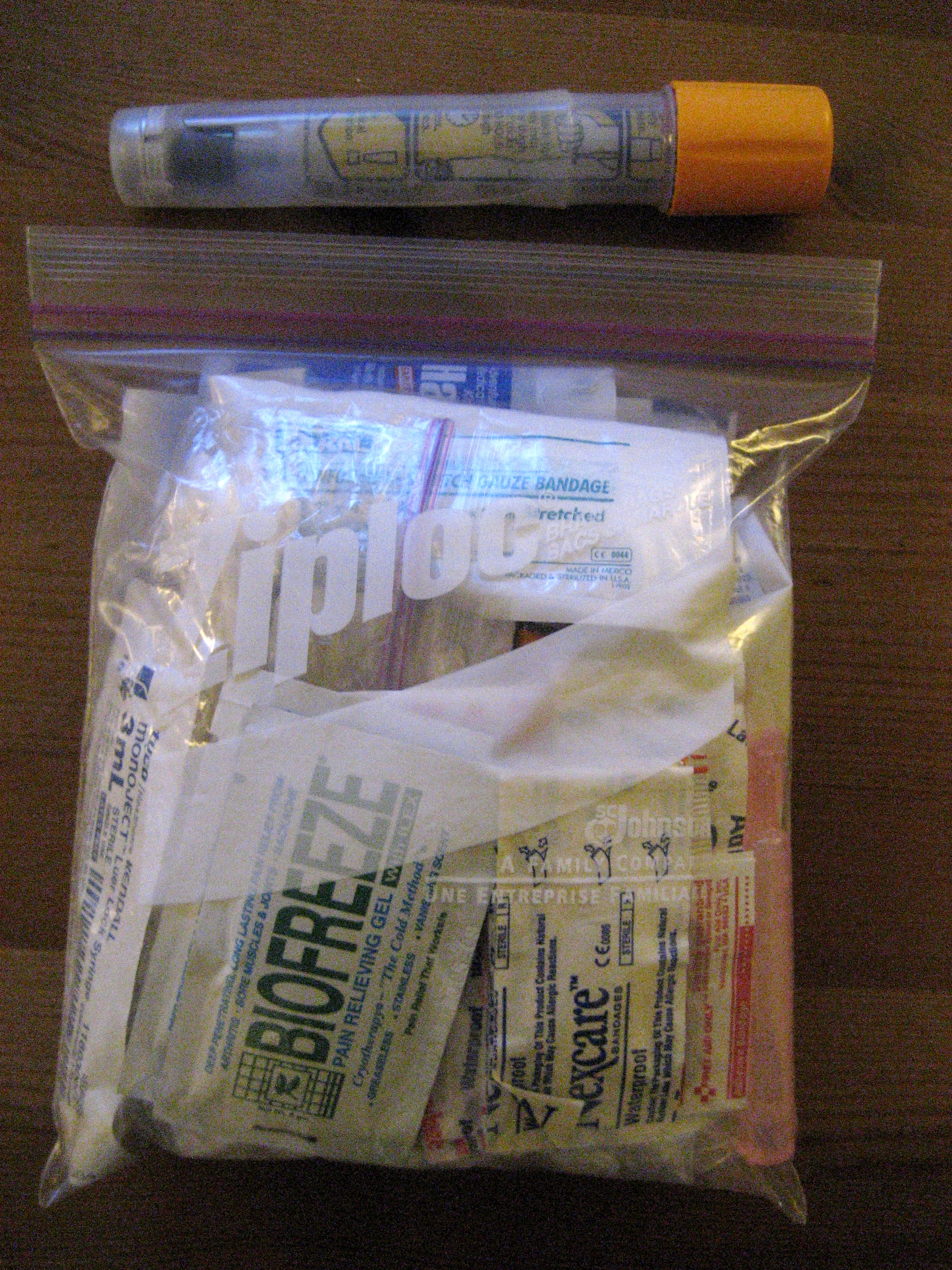 Everything other than the contact lenses and tape, packed into a ziploc bag. (I'd guess it's a quart). The Epi-Pen stays out in case I need to get to it immediately. The most accessible items in here are the hand sanitizer, moleskin, and painkillers.